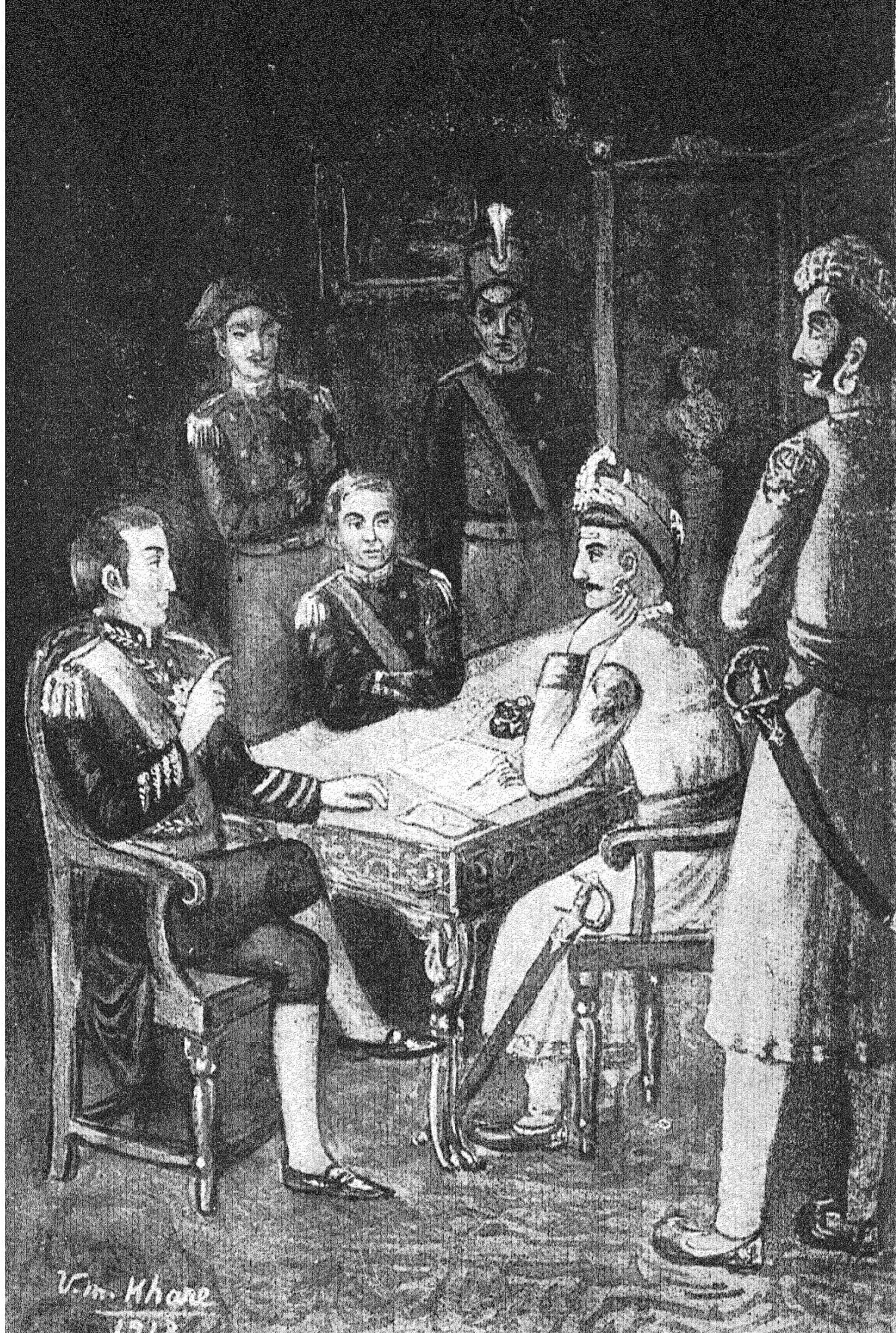 Rao Baji signing the Treaty of Vasai also known as the Treaty of Bassein.